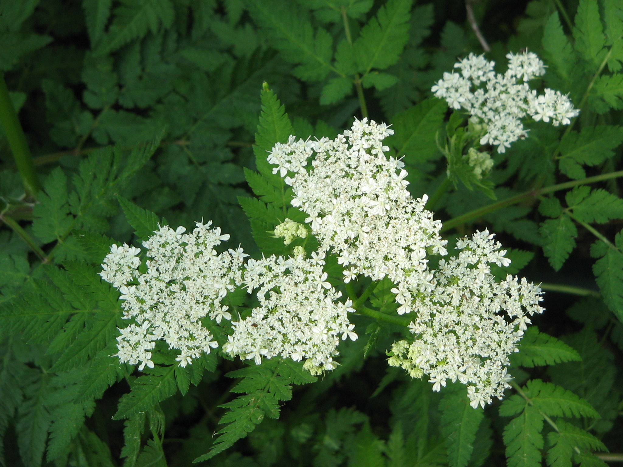 Myrrhis odorata flowers